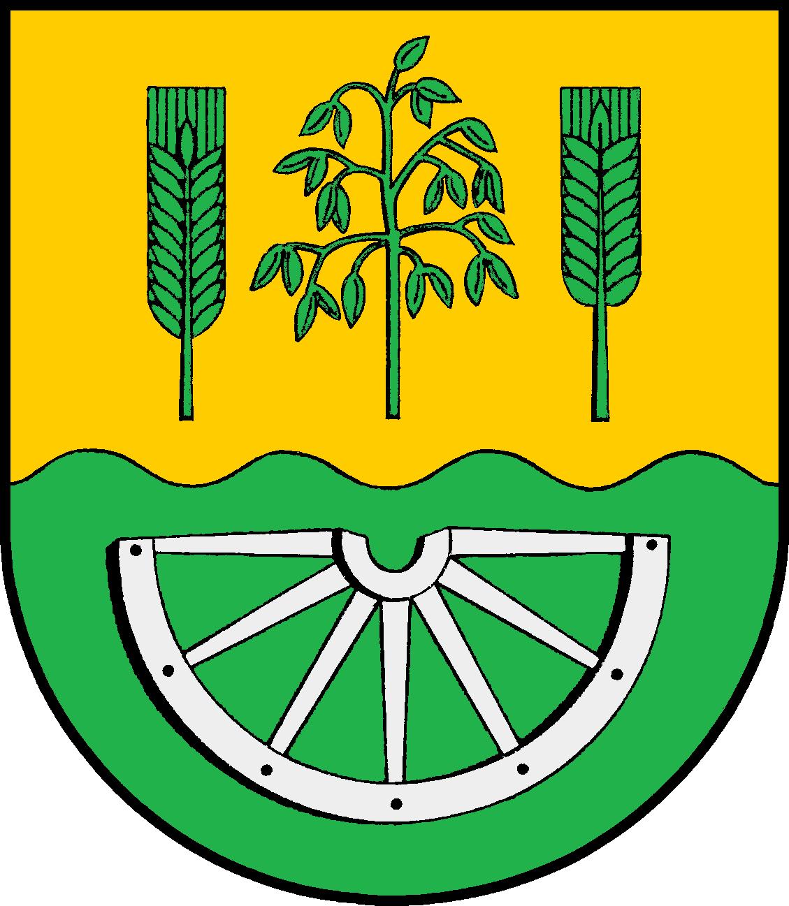 Coat of arms of the municipality Groß Kummerfeld in Schleswig-Holstein, Germany.